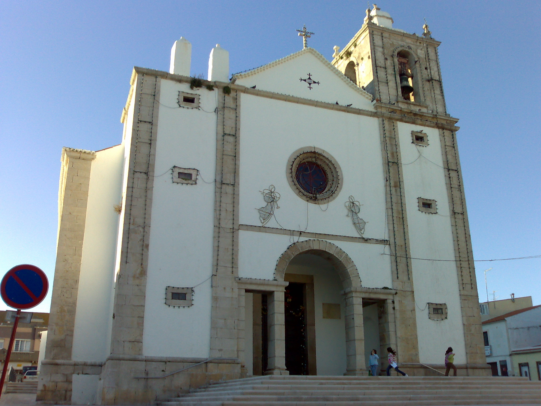 Igreja de São Pedro (Church of St. Peter), Peniche, Portugal.